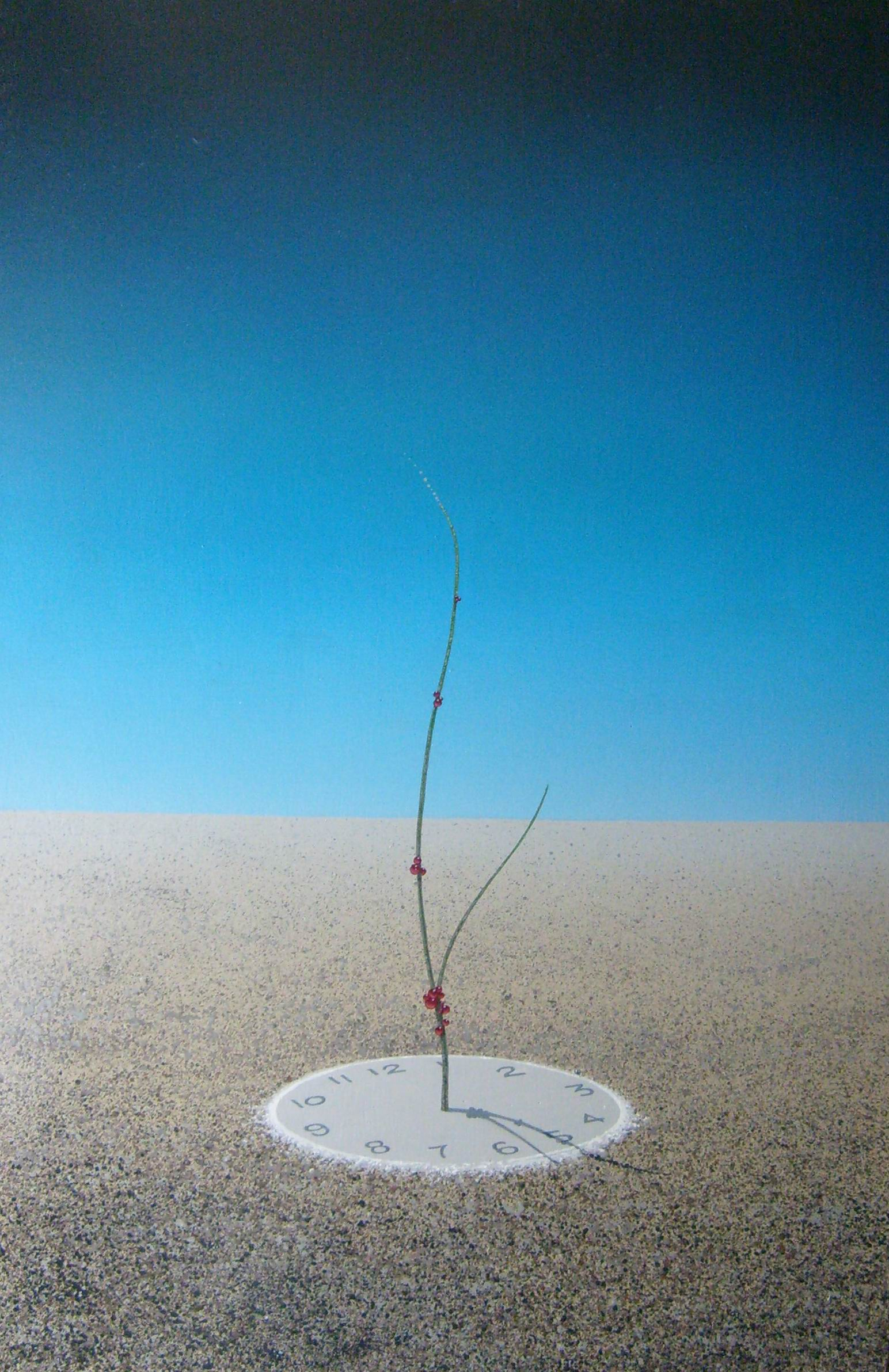 Description: This is a painting by Arthur Benjamins. Source: Supplied by artist to uploader; available in lesser quality at Author: Arthur Benjamins Permission: OTRS permission granting GFDL v 1.2 or later and CC-BY-SA. See Ticket:2009051710015187